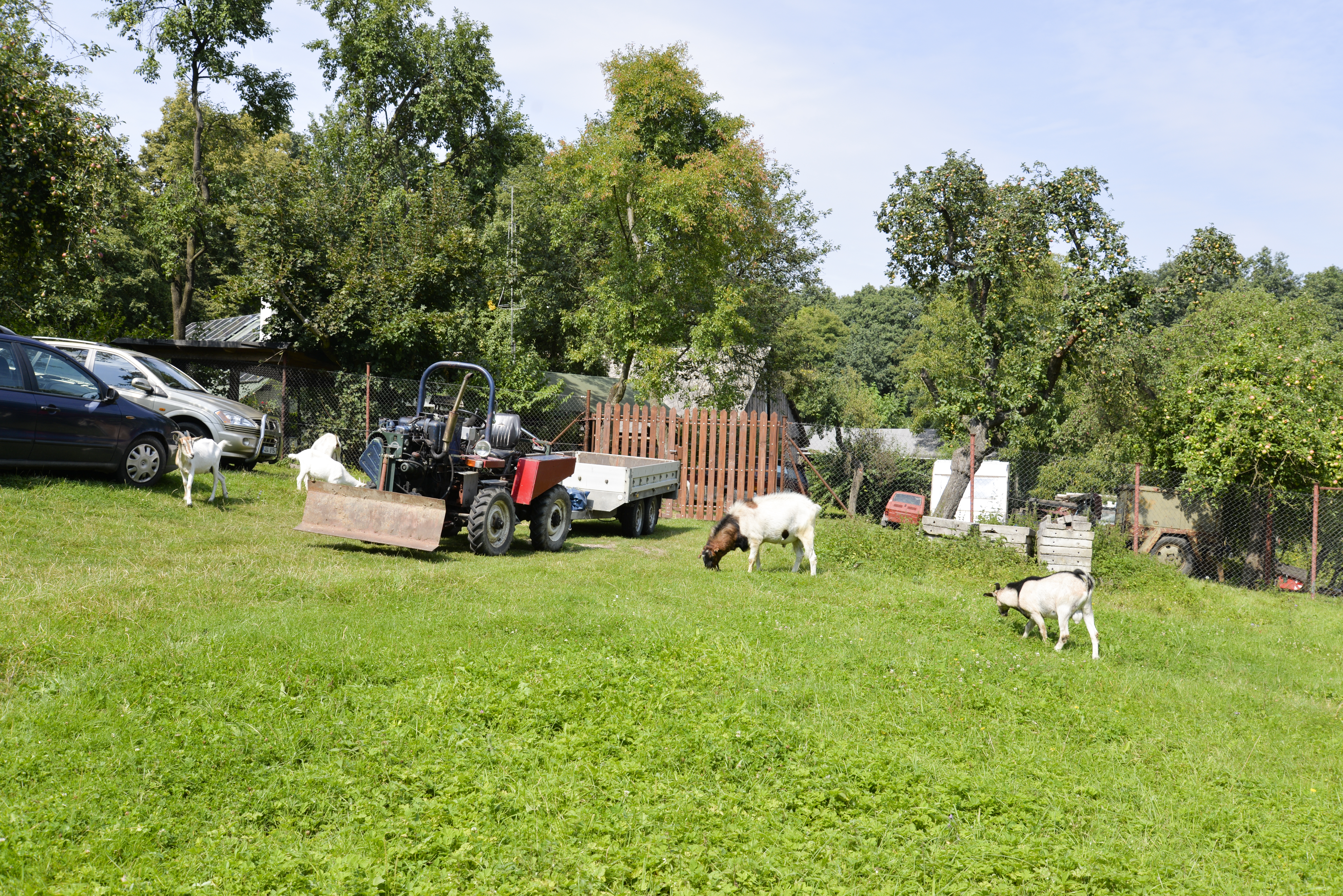 Brejlov - solitude, part of city Bakov nad Jizerou in Mladá Boleslav District